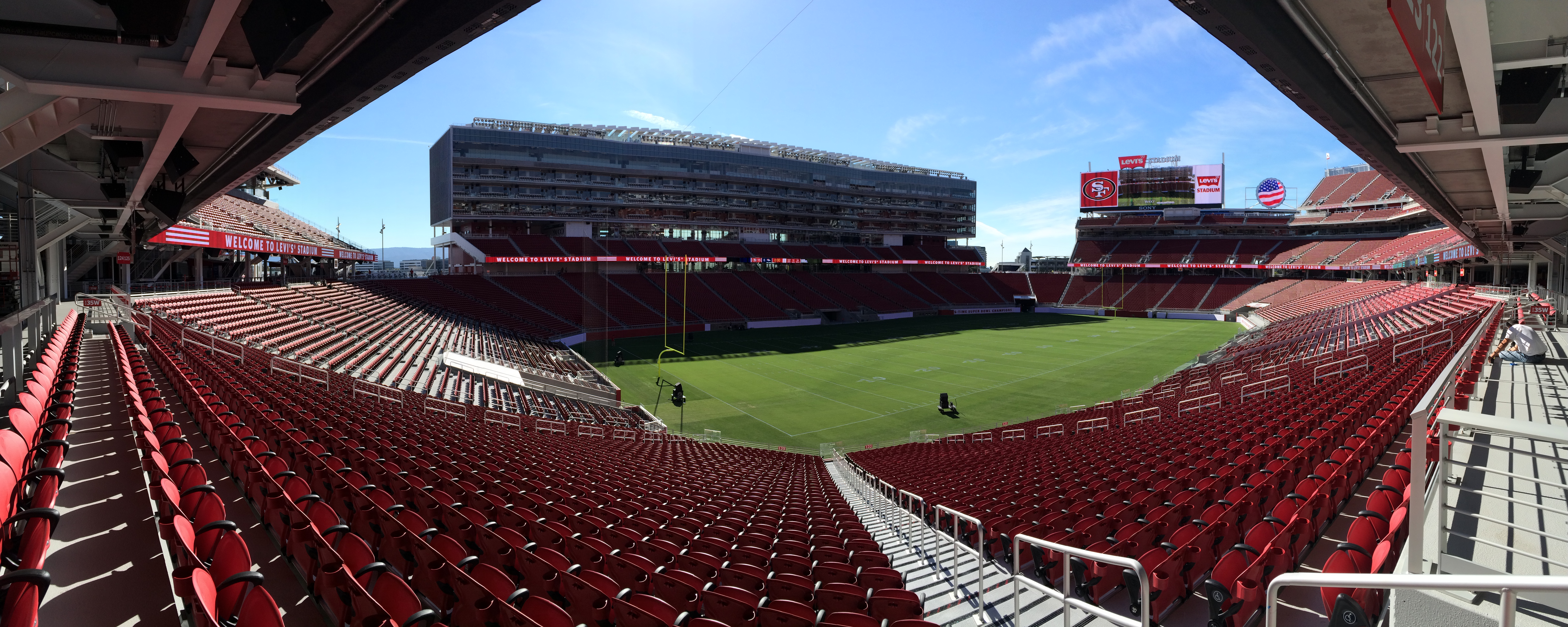 Levi's Stadium